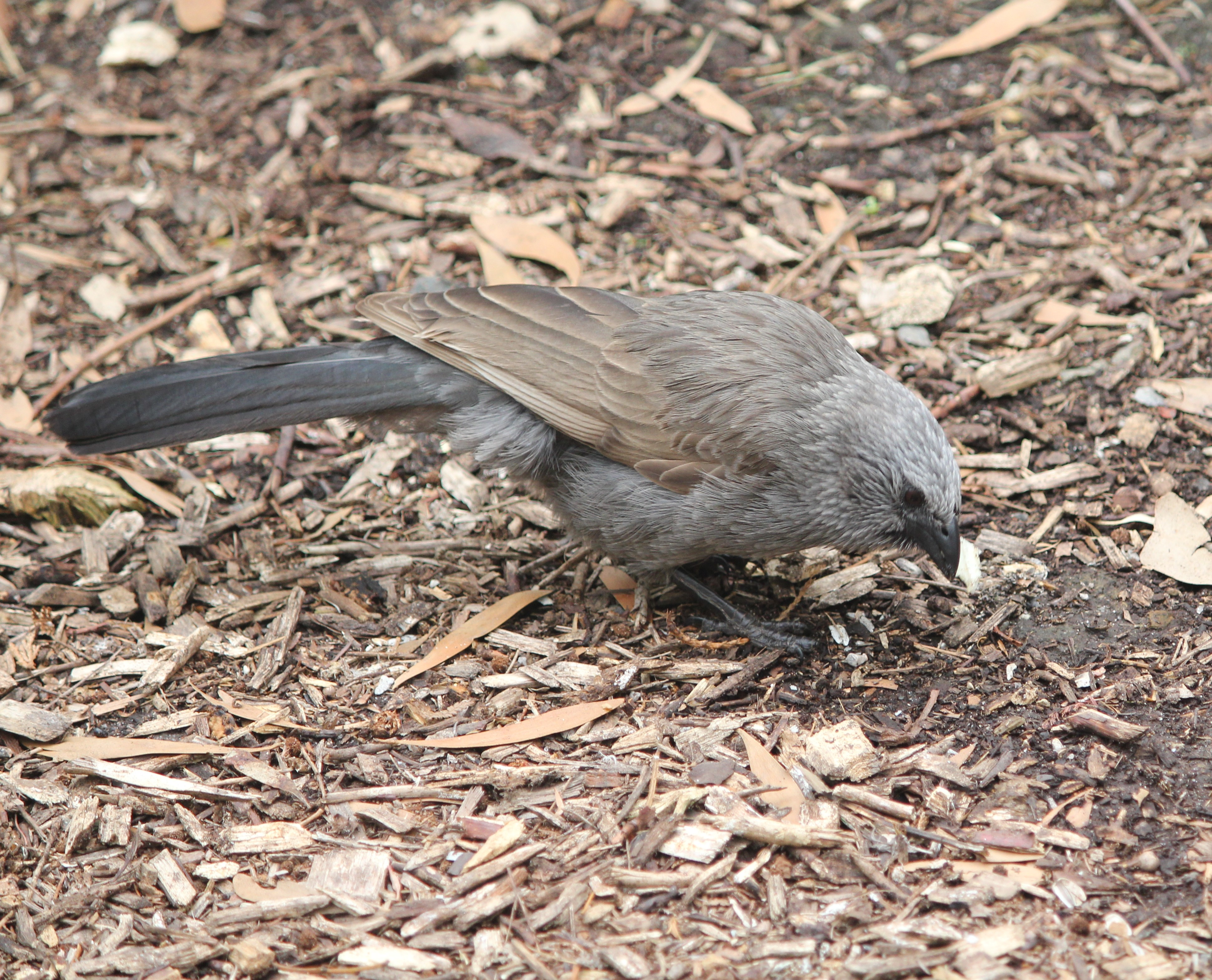 Apostlebird (Struthidea cinerea) - Australia